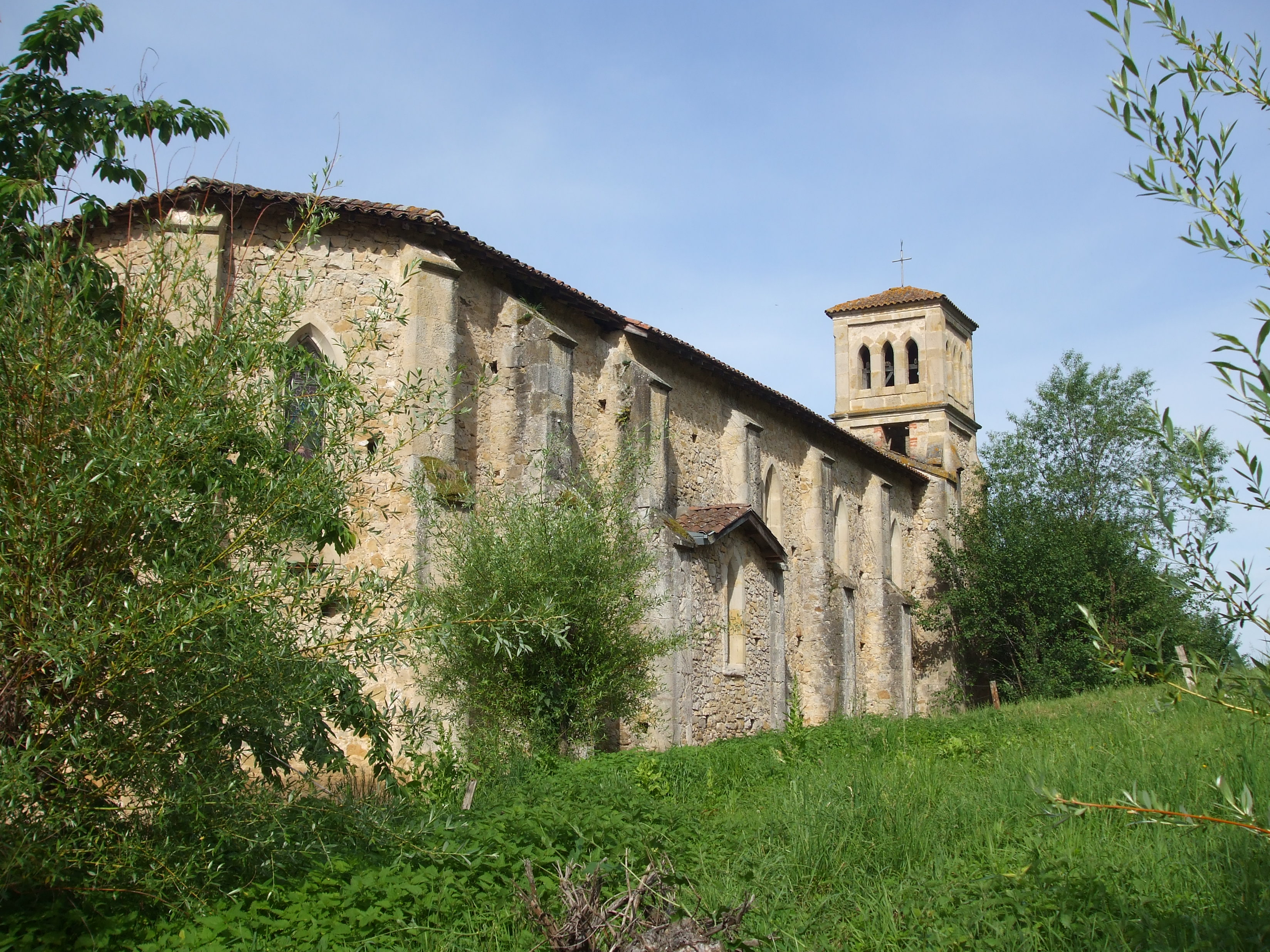 Church in Aigues-Juntes